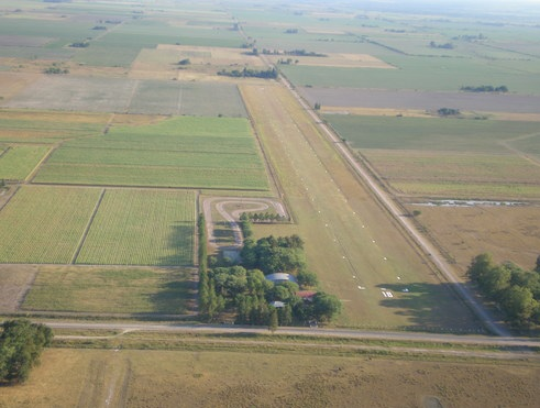 Aeroclub Villa Ocampo, foto tomada por Gaston Sager